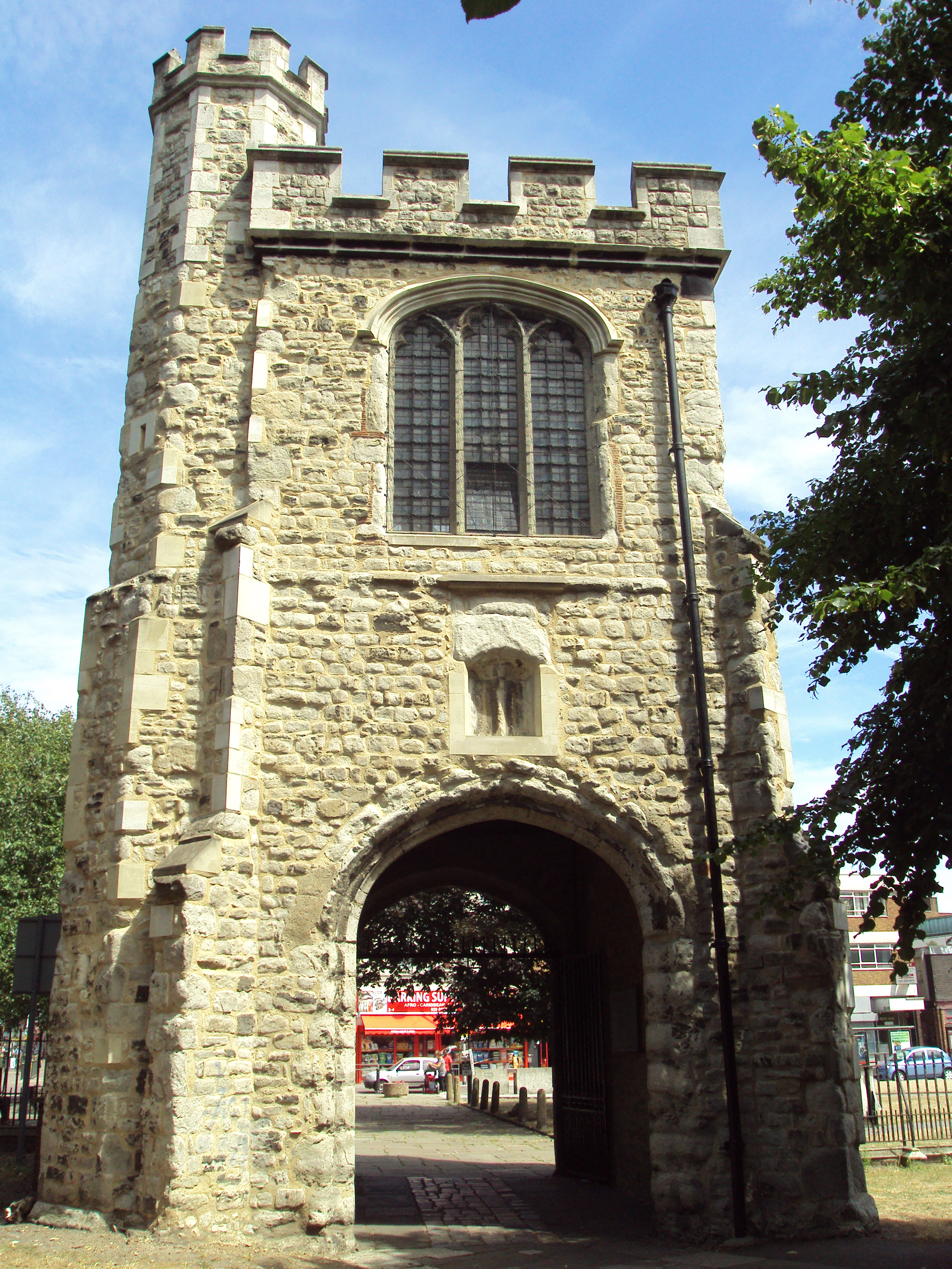 Barking Abbey curfew Tower at St Margarets, Barking, East London.